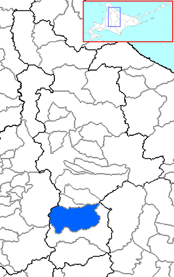 The location of Furano in Kamikawa Subprefecture, Hokkaido Prefecture, Japan.